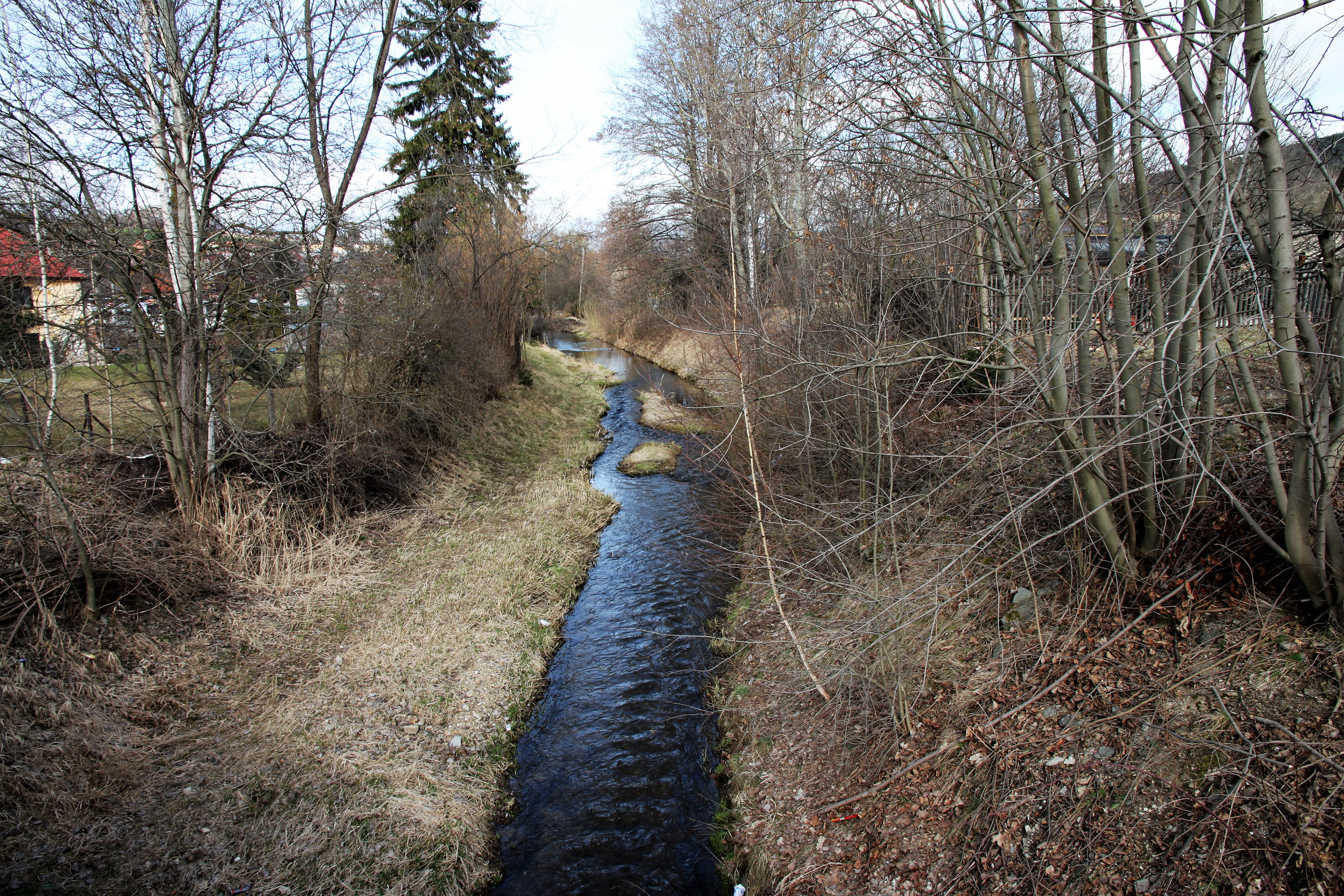 Živný Stream in Prachatice, a tributary of the Blanice River, South Bohemia, Czechia.